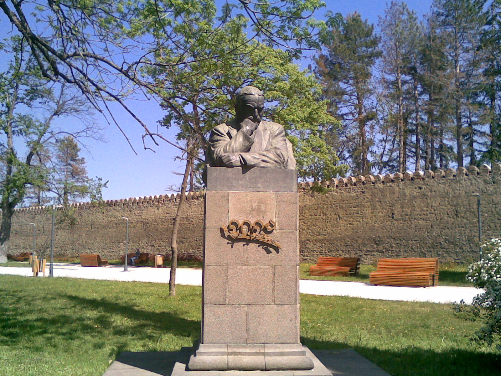 Ilia chavchavadze's bust in Telavi